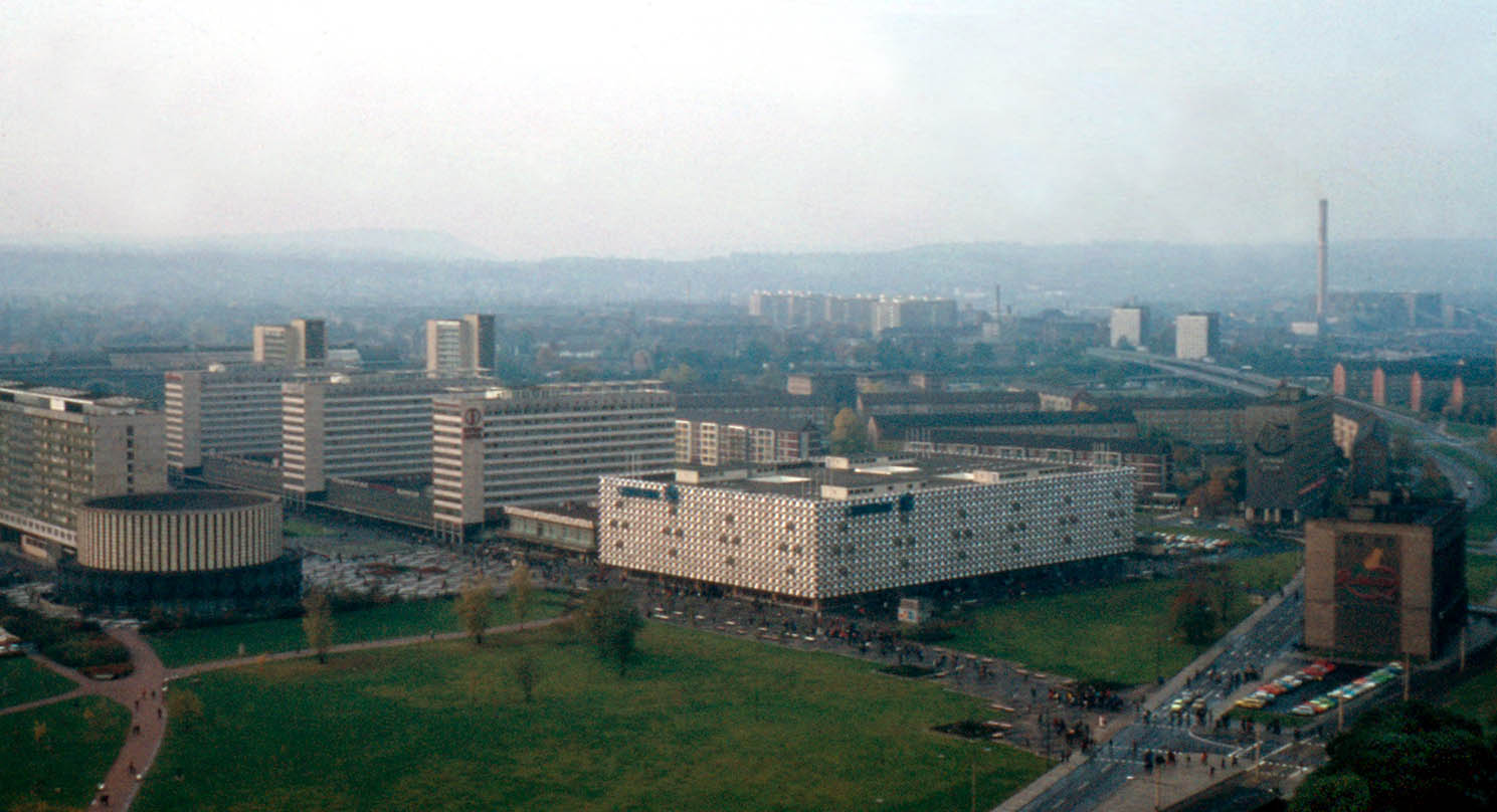 The Prager Straße, Dresden, in the GDR period, with 3 inter hotels (October 1980)